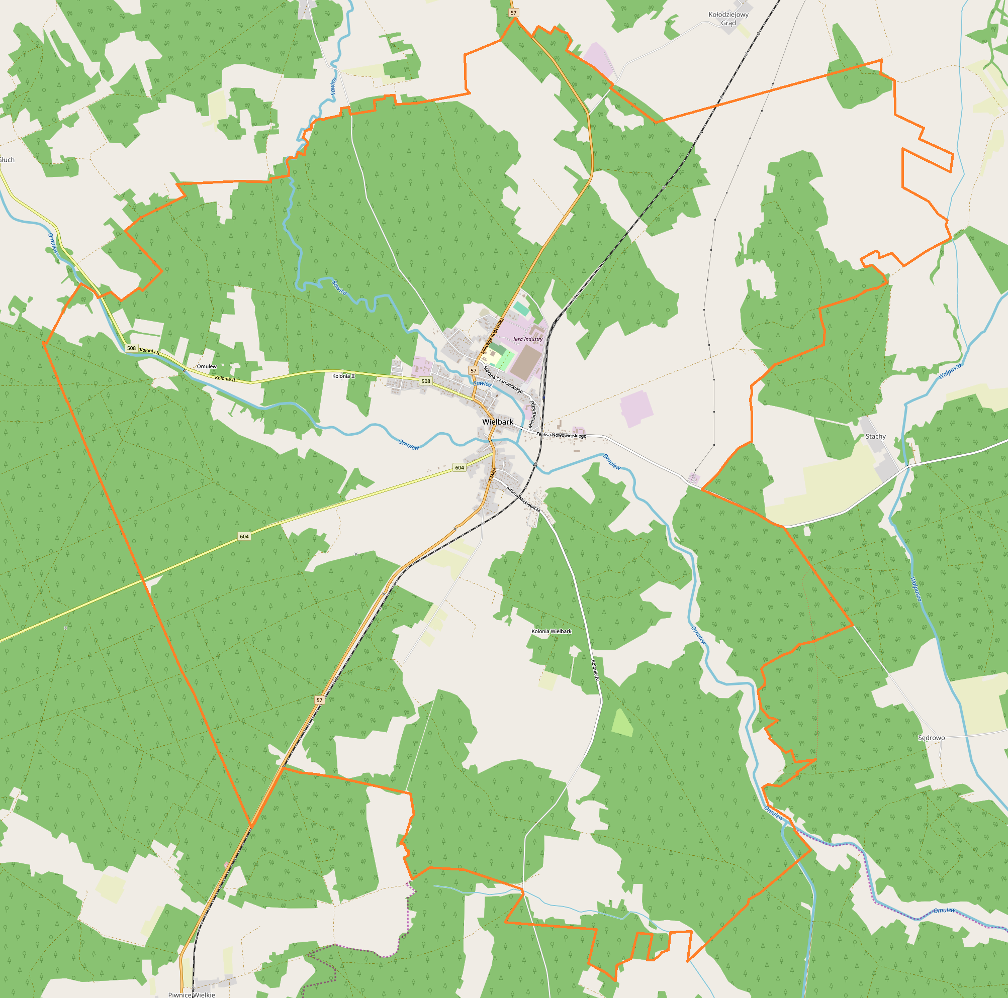 Location map